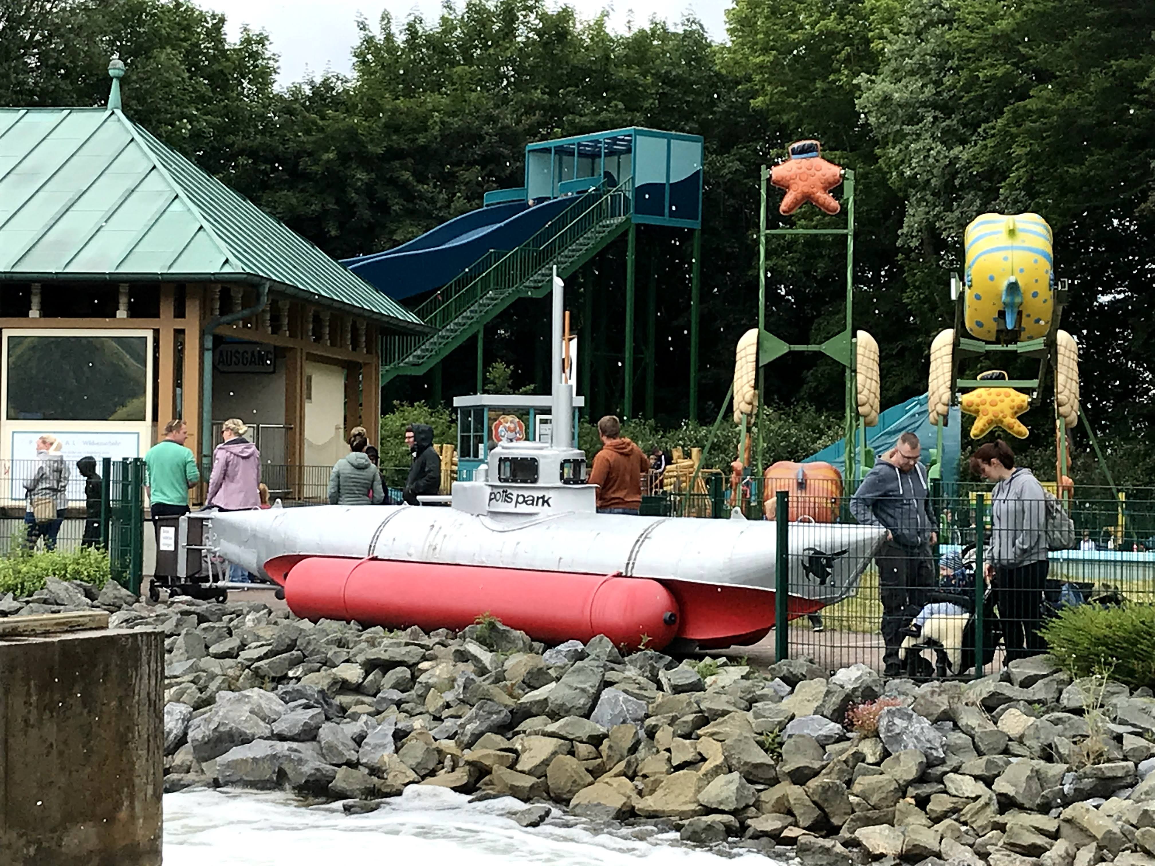 A preserved German 'Biber' submarine on display at Potts Park amusement park, Minden, Germany